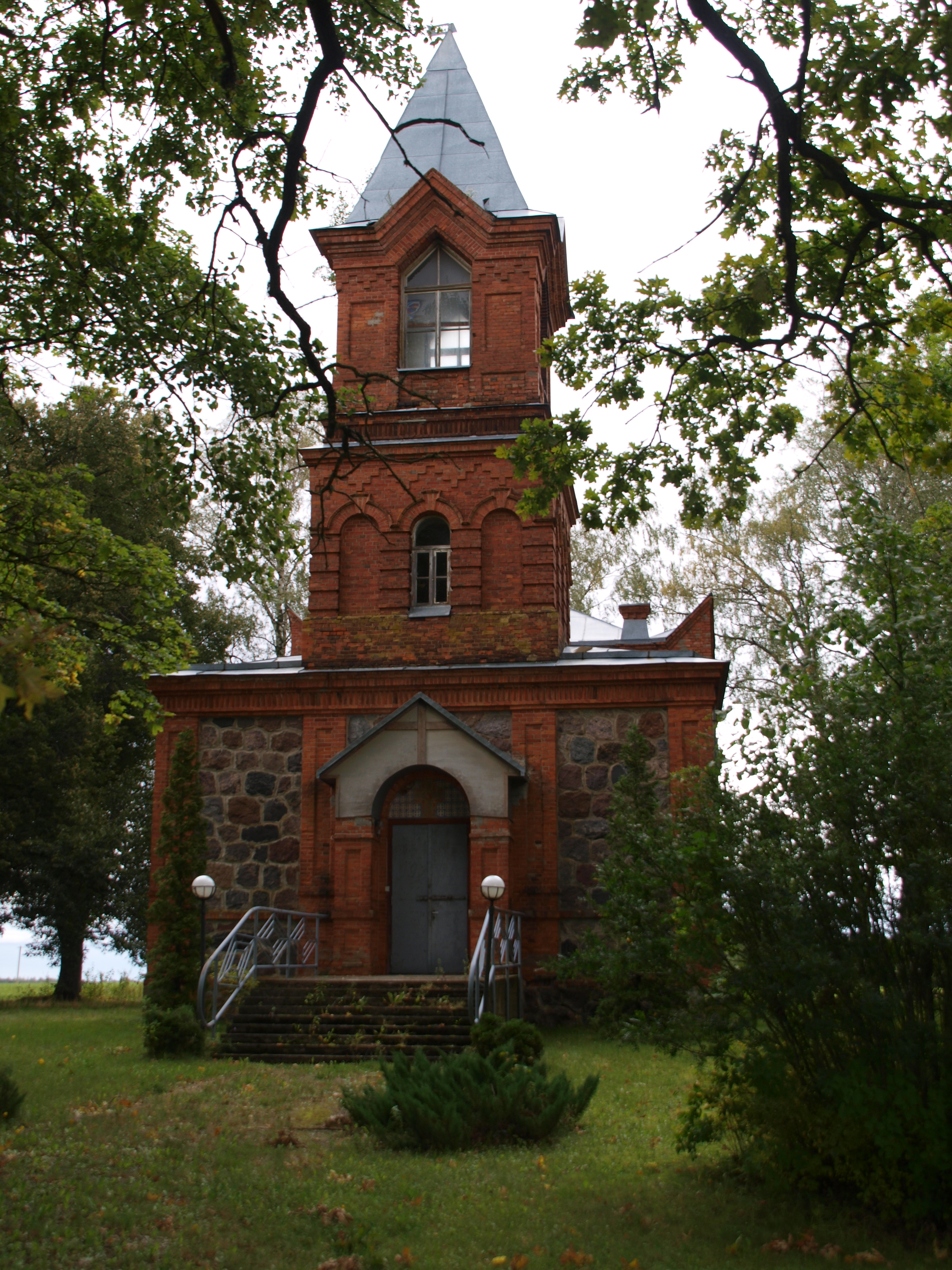 Rannu Apostliku-õigeusu kirik. Ehitatud 1899-1901